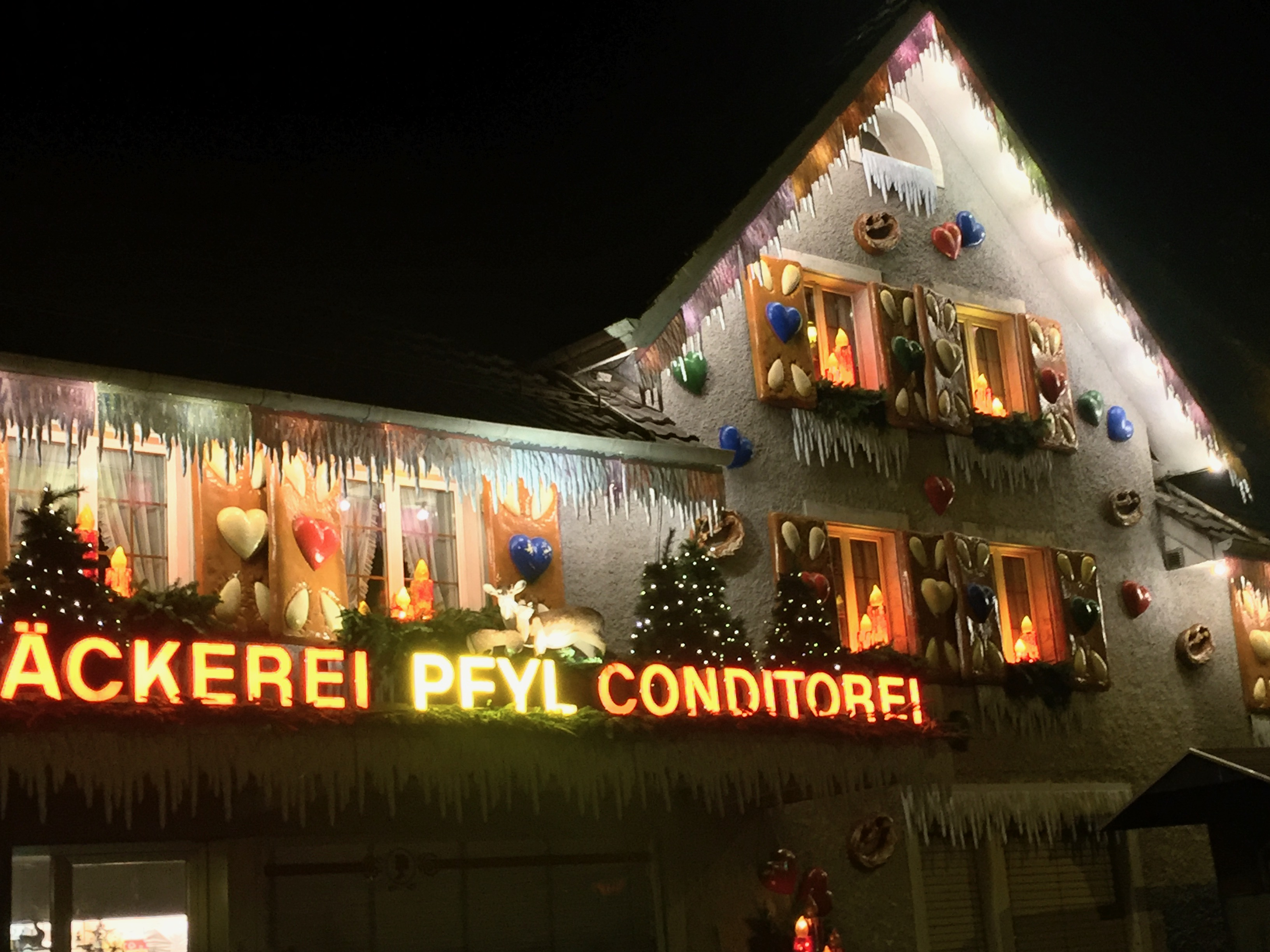 This bakery never misses an opportunity to marvel the neighbourhood with its Christmas decorations.